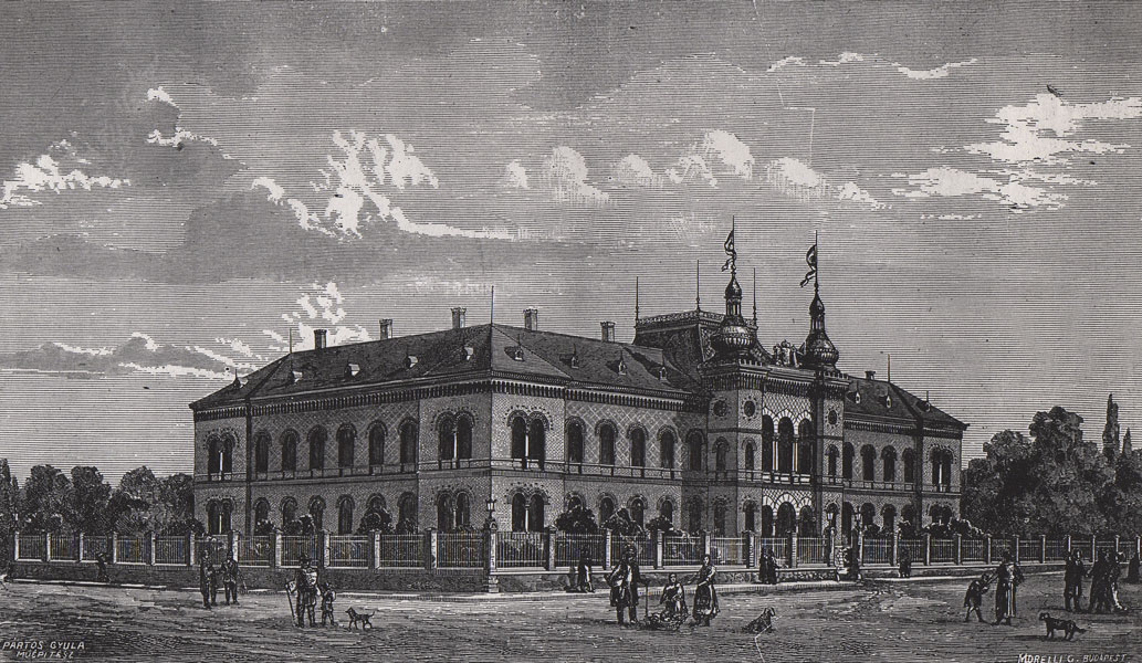 Patriarchate palace in Sremski Karlovci (seat of the Serbian Orthodox Patriarchate of Karlovci), around 1890.